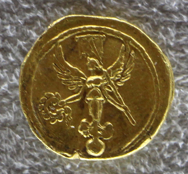 Ancient Roman coins in the Museo archeologico nazionale (Florence)